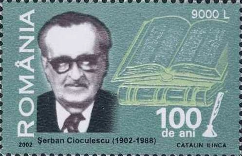 Stamps of Romania, 2002